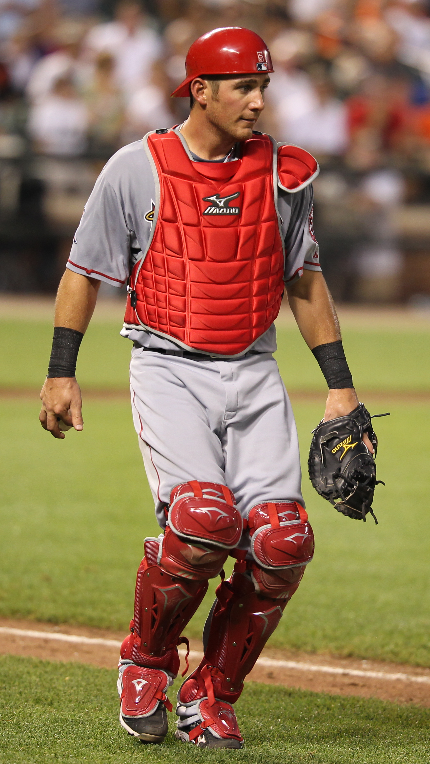 Jeff Mathis